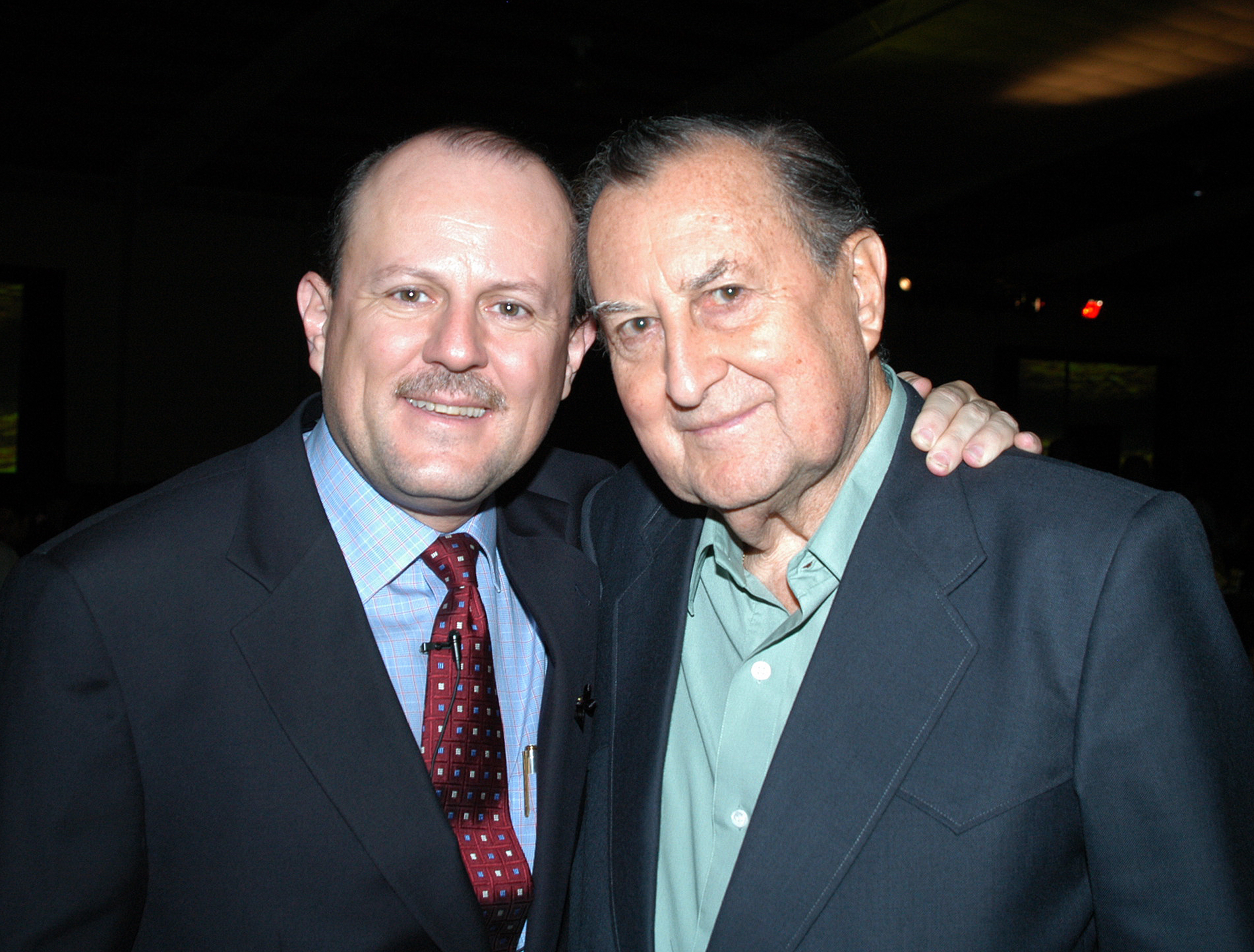 Jorge Rossi Chavarría (1922-2006) and José Rossi Umaña (left), San José, Costa Rica